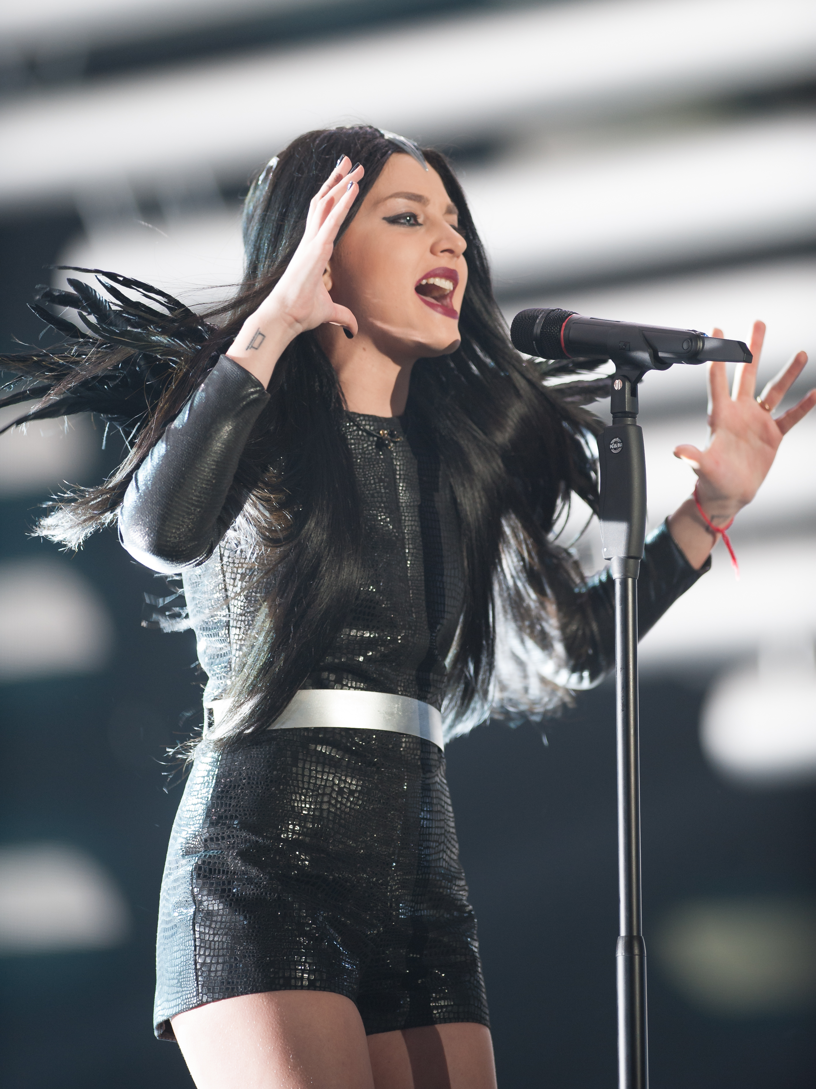 Eurovision Song Contest Vienna 2015: Nina Sublatti, Georgia